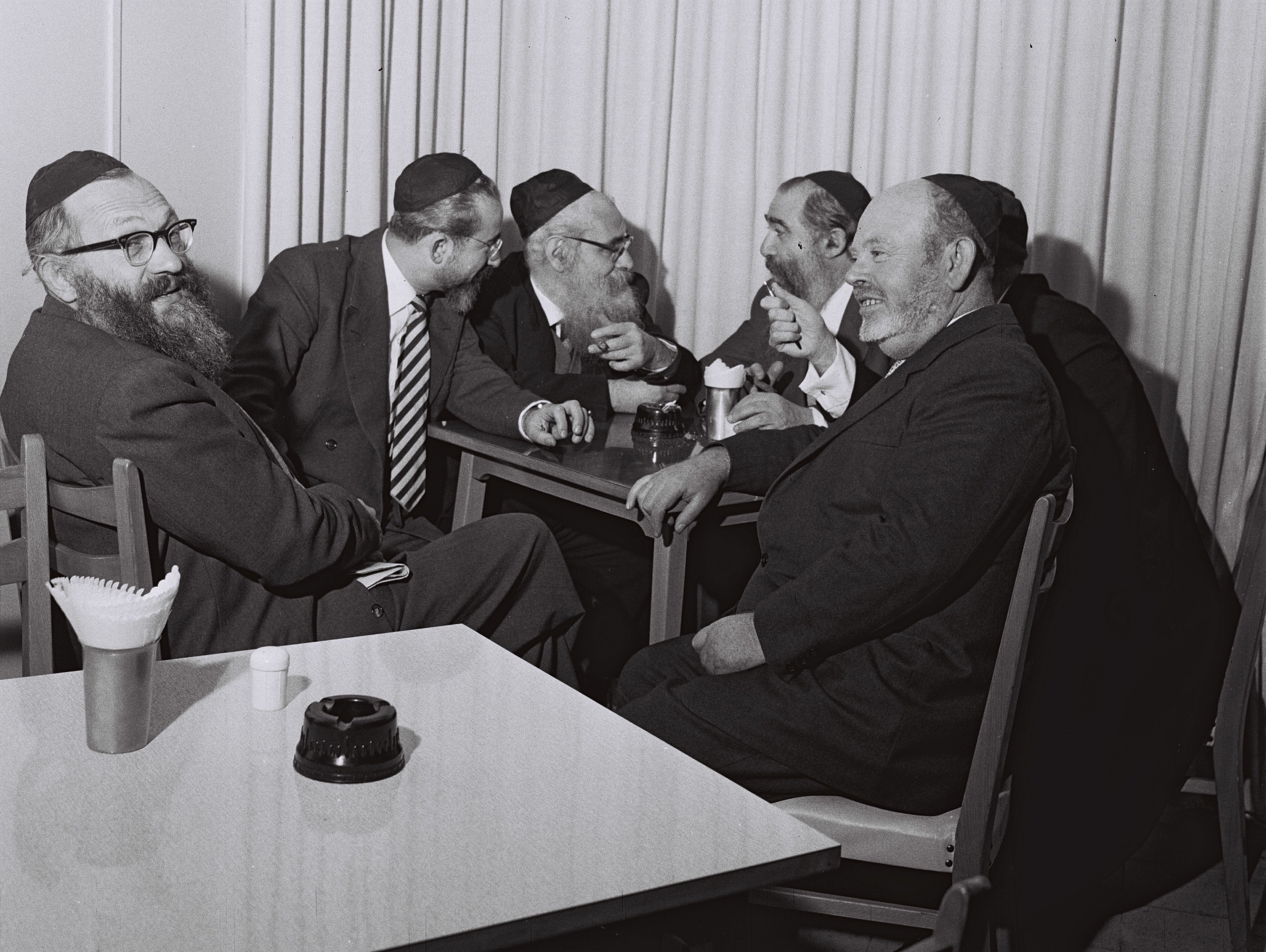 Interlude in the Knesset restaurant during the first sitting of the fourth Knesset. Members of the United Torah Judaism (Yahadut HaTora) get together.